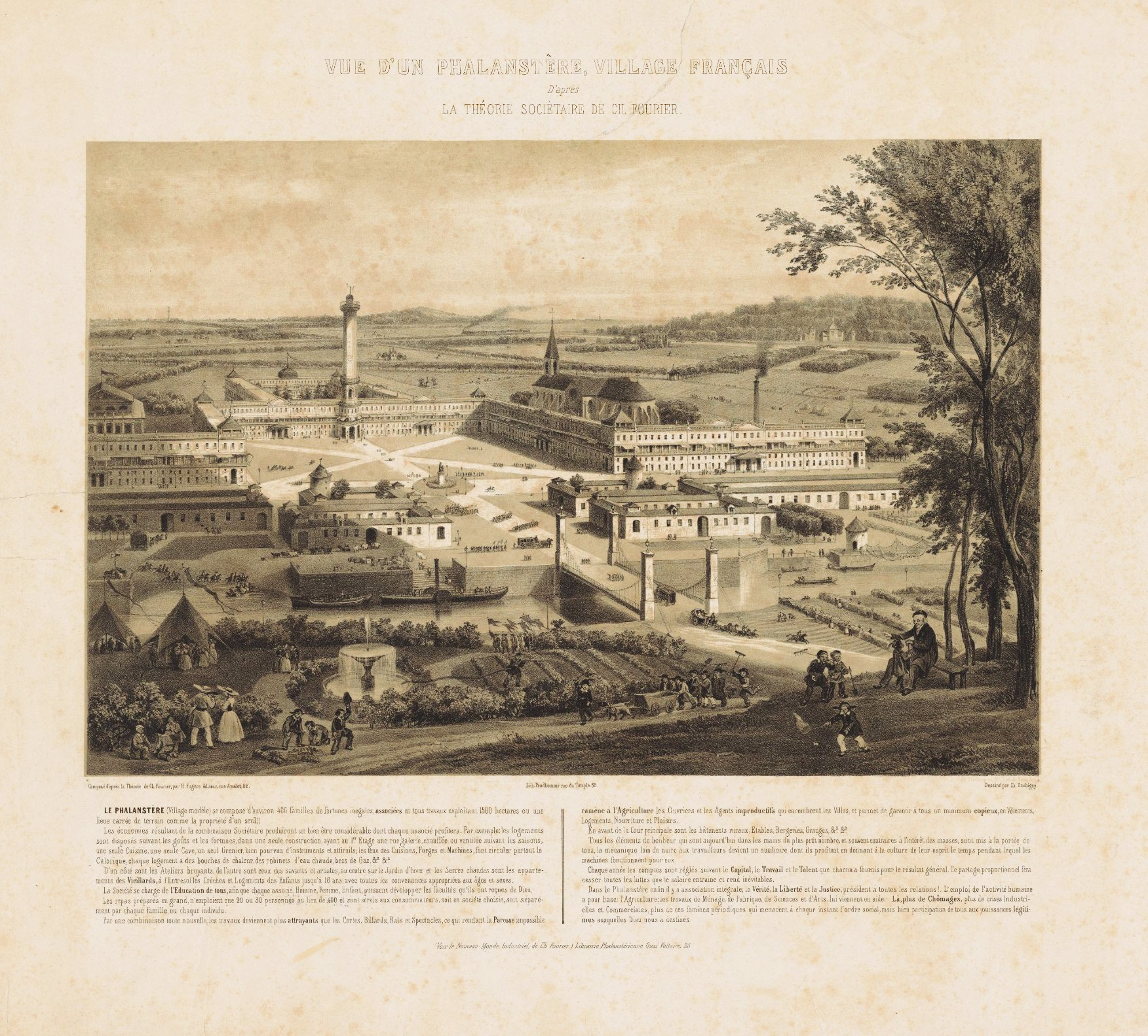 Lithograph, "Vue d’un phalanstère, village français [composé] d’apres la théorie sociétaire de Ch. Fourier", H. Fugère. Date uncertain, but from 19th century. 860.05, Houghton Library, Harvard University